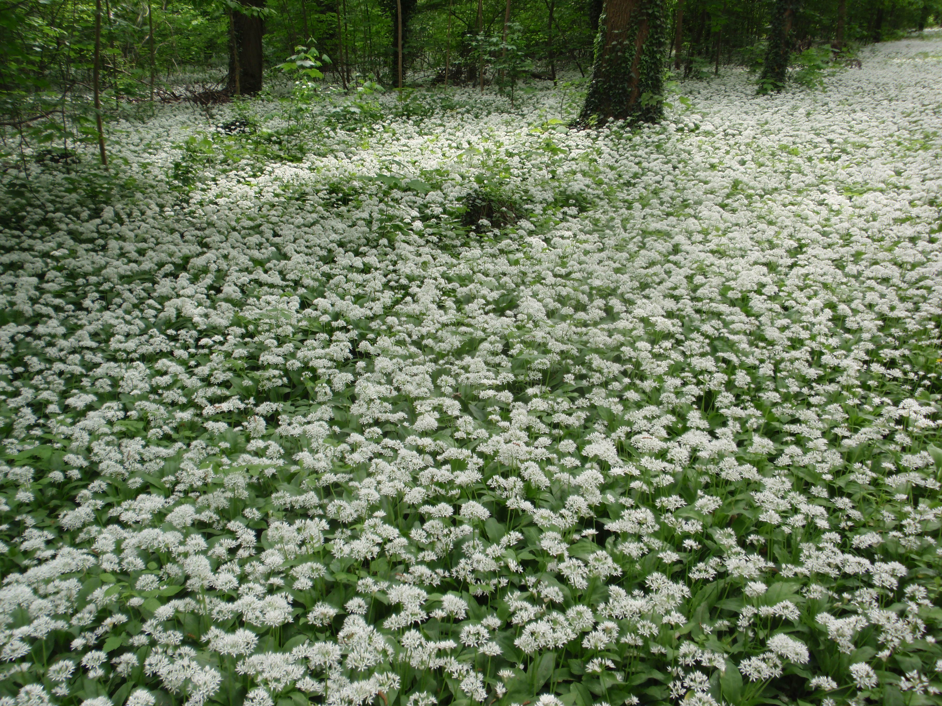 Flowering ramsons (in Groß-Gerau, Hesse, Germany)